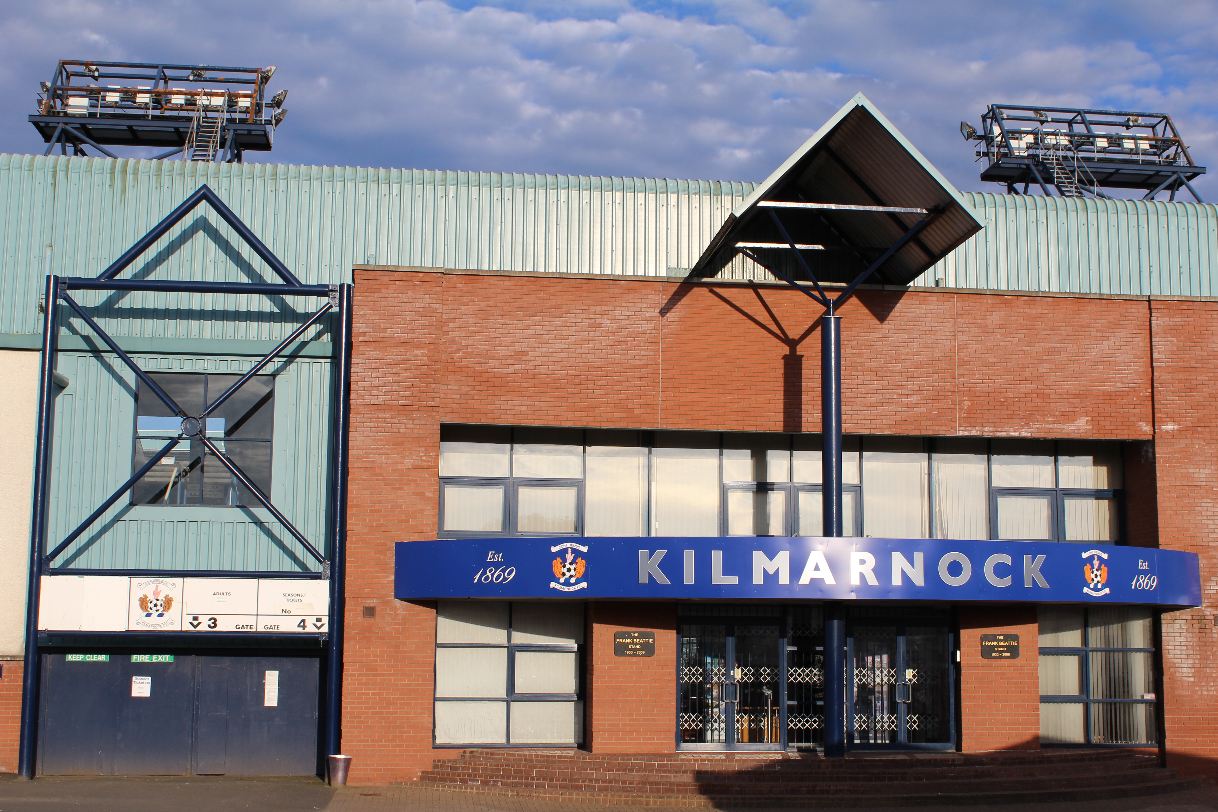 Rugby Park Stadium, Kilmarnock, Scotland